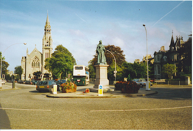 Queen's Cross